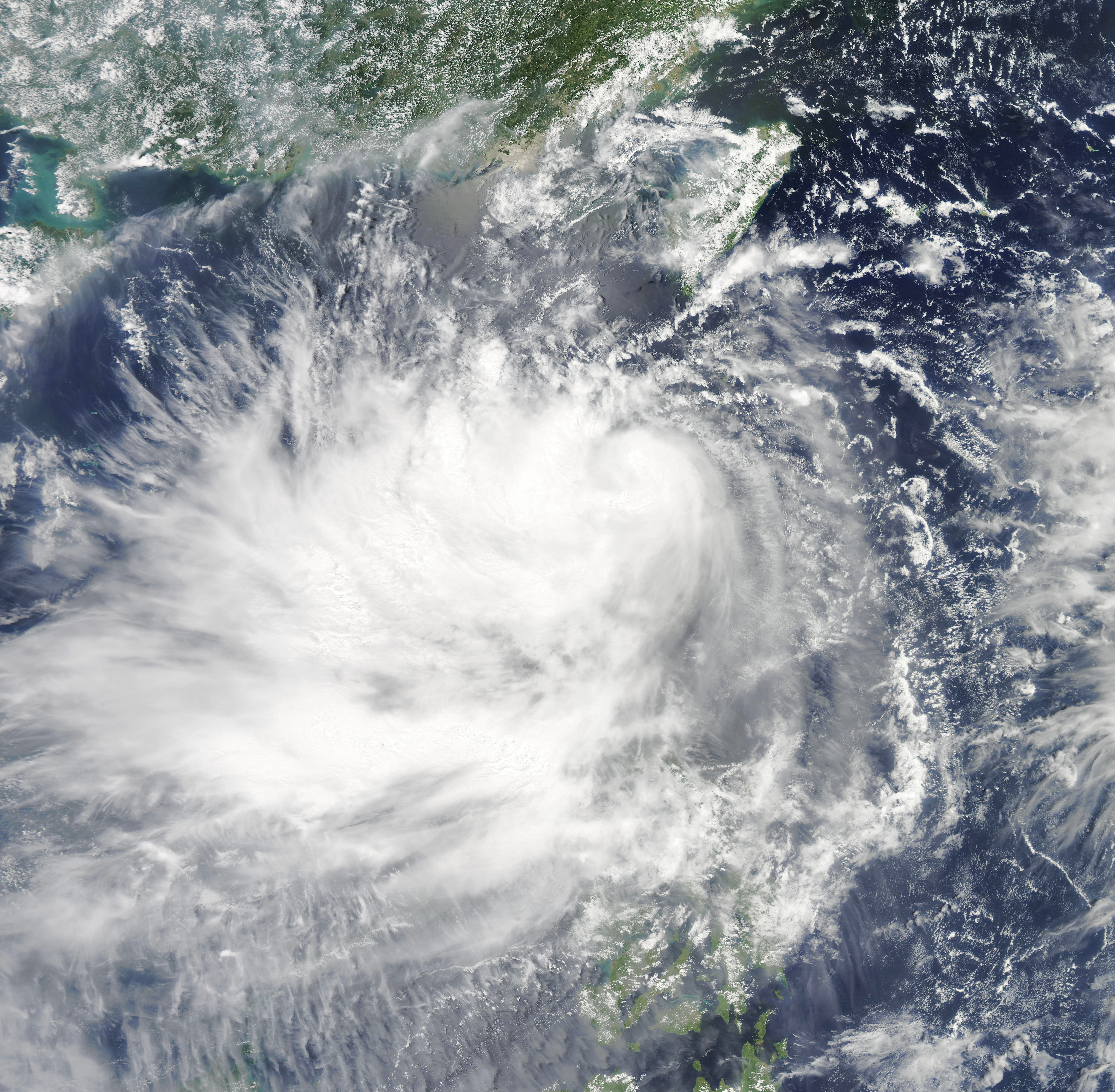 Tropical Storm Kai-tak on August 15, 2012